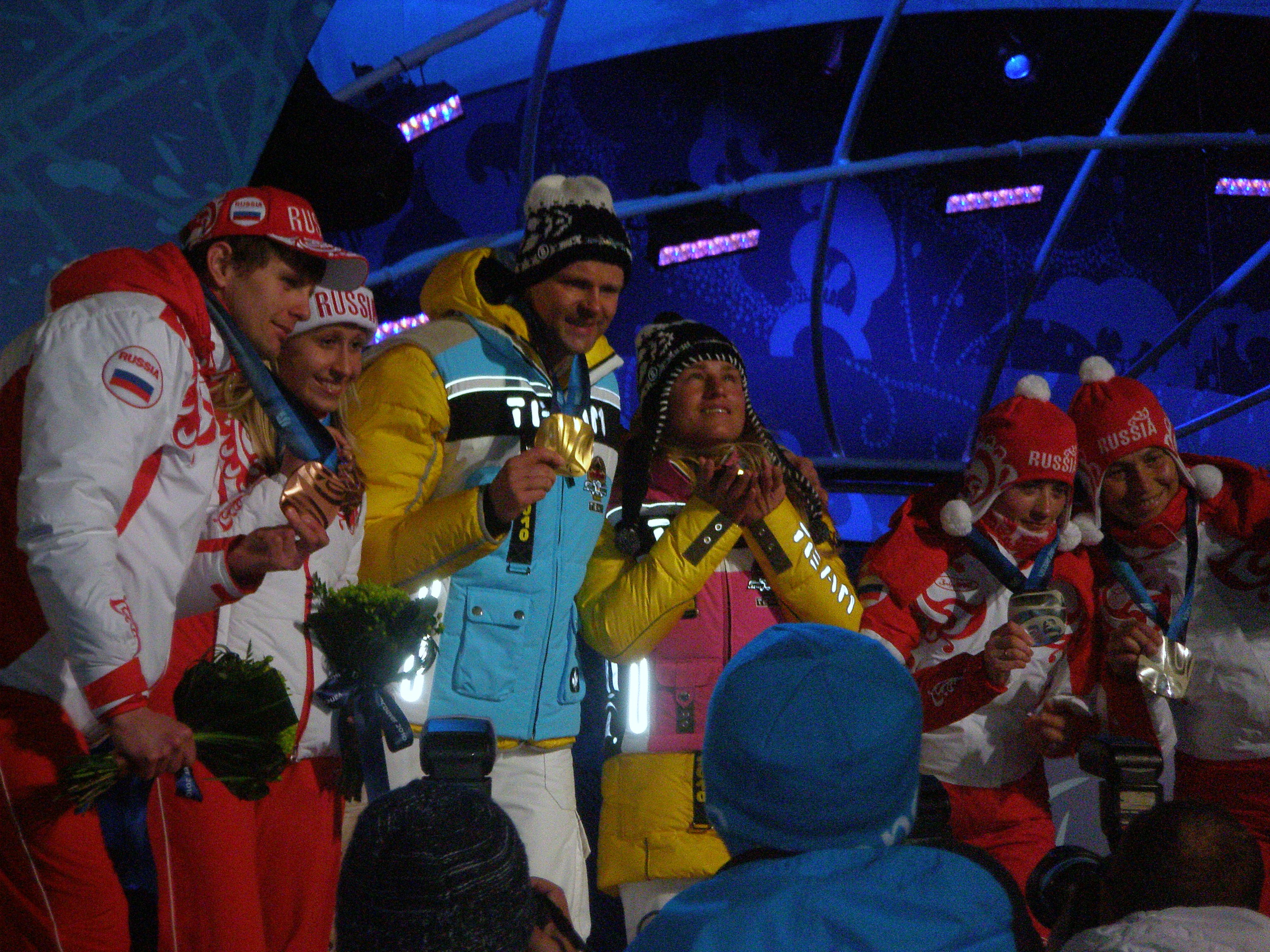 Medalists for the Women's Visually Impaired Biathlon, their guides also get medals! From left to right: Bronze medalists Alexey Ivanov (guide) and Mikhalina Lysova of Russia, gold medalists Thomas Friedrich (guide) and Verena Bentele of Germany, and silver medalists Natalia Yakimova (guide) and Liubov Vasilyeva of Russia.